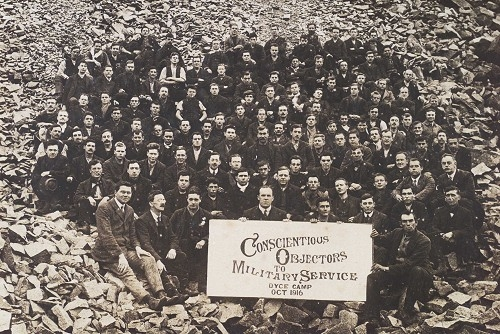 Publicity photograph taken on conscientious objectors at the work camp in Dyce, Scotland in 1916.